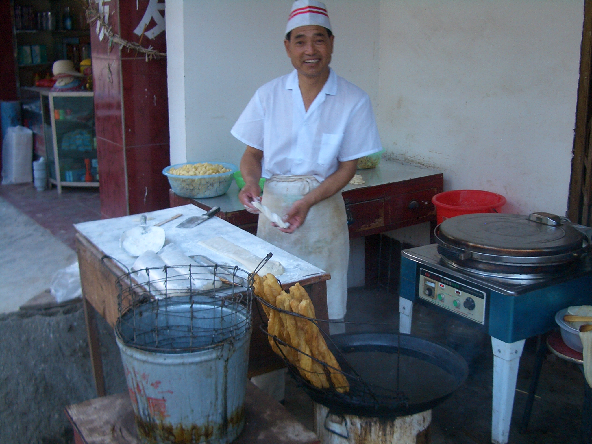 A breakfast stand in the main street of of Gaoqiao Township, Xingshan County, Hubei.